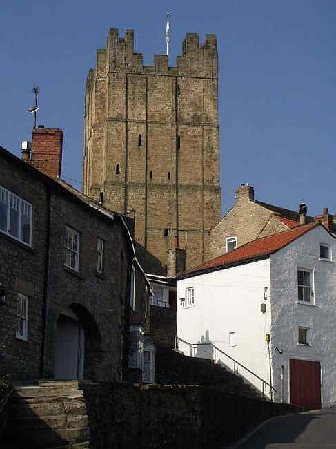 Richmond Castle, North Yorkshire, England, seen from Millgate. Photo by User:Ian Broadhurst.